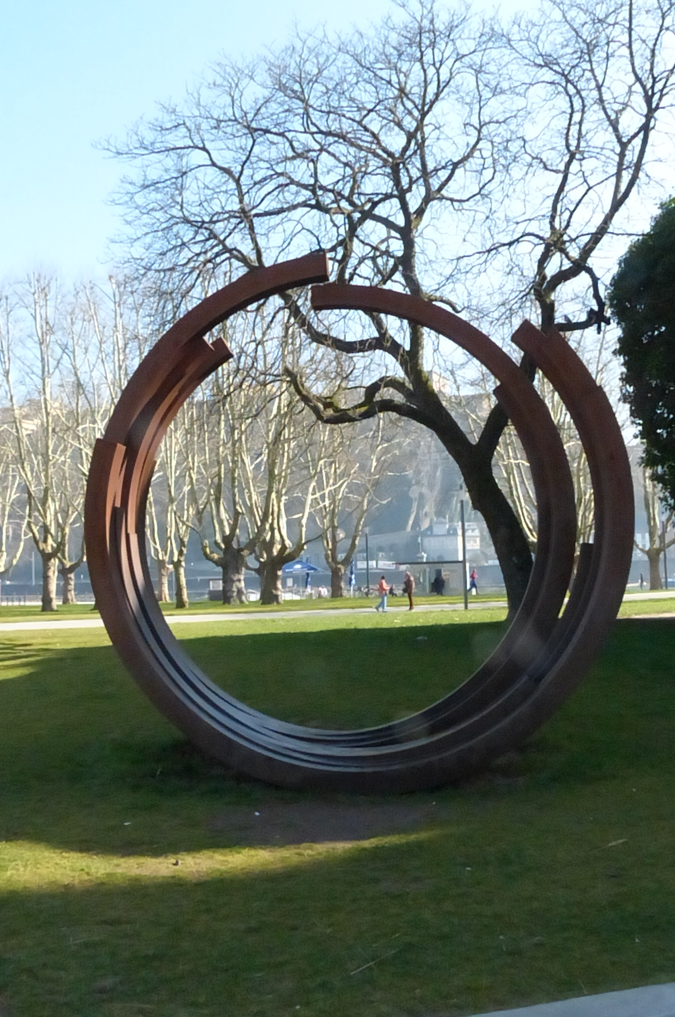 "22.5° "ARC x 5 ET 225° ARC X 5, 2007", Sculpture by Bernar Venet